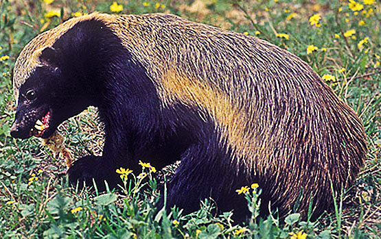 African Ratel